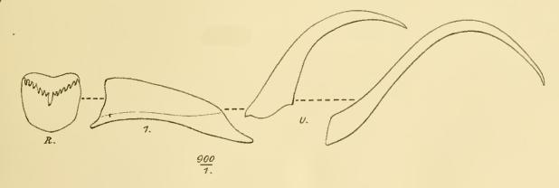 Radula of Carenzia melvilli (Schepman, 1909); family Seguenziidae